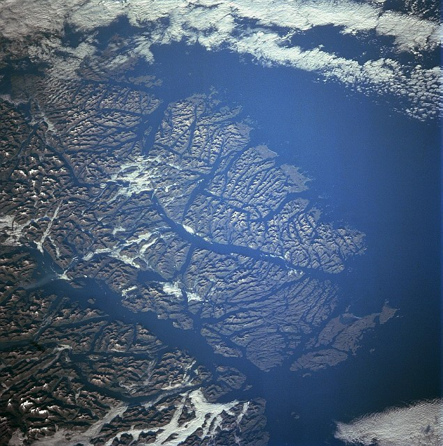 Guayaneco Archipelago, Chile - June 1998 NASA says:The islands of the Guayaneco Archipelago can be seen in this southwest-looking view. The Guayaneco Archipelago was heavily glaciated during the most recent ice age. These glaciers dissected these mountain islands into a series of deep river valleys and glacial troughs. Today these glacial troughs are deep channels and fjords. The islands of the Guayaneco Archipelago comprise a series of elongated islands and deep bays that are the traces of a drowned coastal range. A number of deep channels are visible traversing generally north to south through the islands. These include the Messier Channel in the lower left portion of the image, and the Fallos Channel near the center of the image. The Pacific Ocean covers most of the upper center and upper right portion of the image. Forests cover the lower slopes of the mountains throughout the many islands. Human settlement on these islands is scarce.